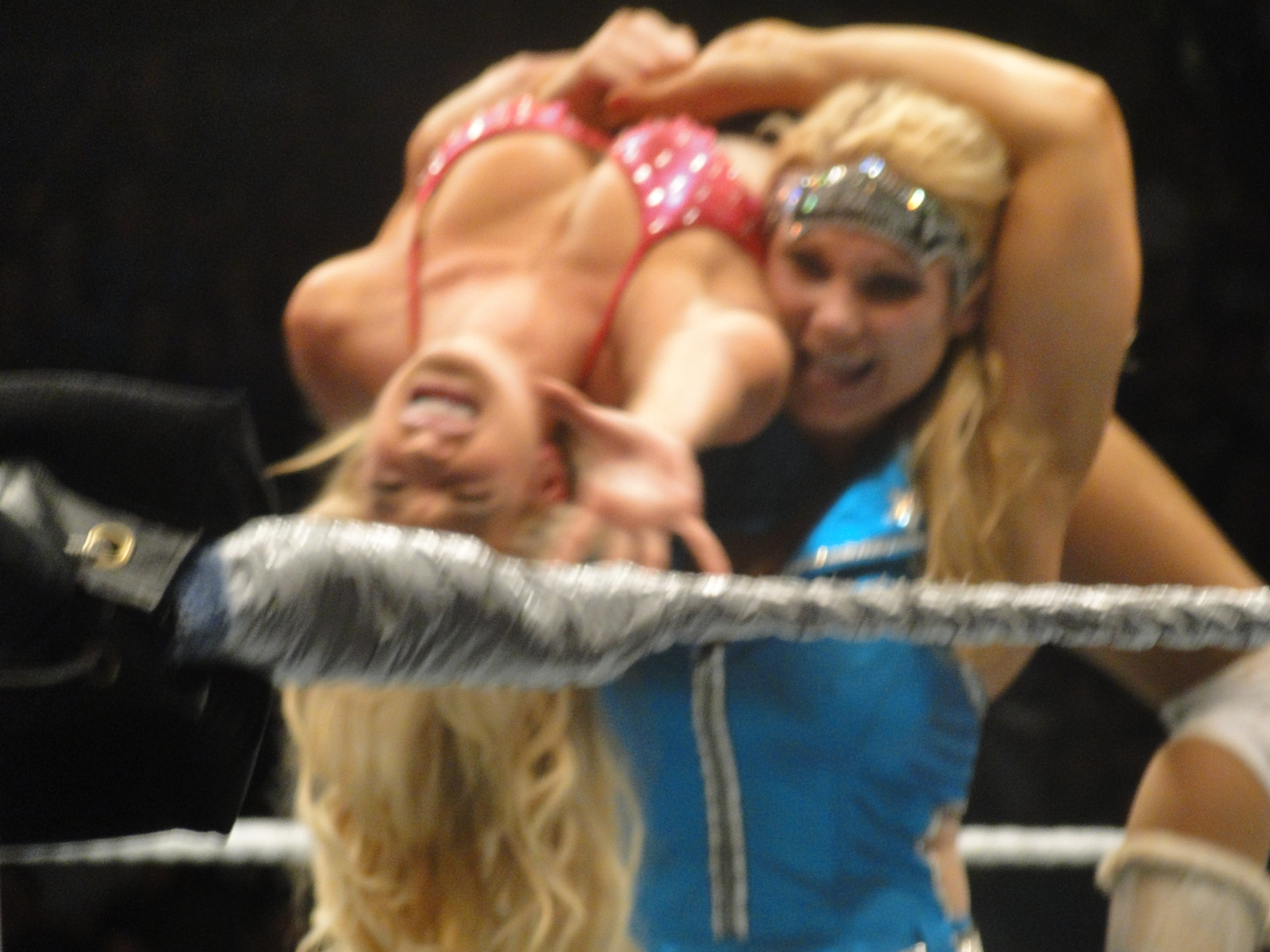 Beth Phoenix and Kelly Kelly in a match at a WWE live event in Puerto Rico.